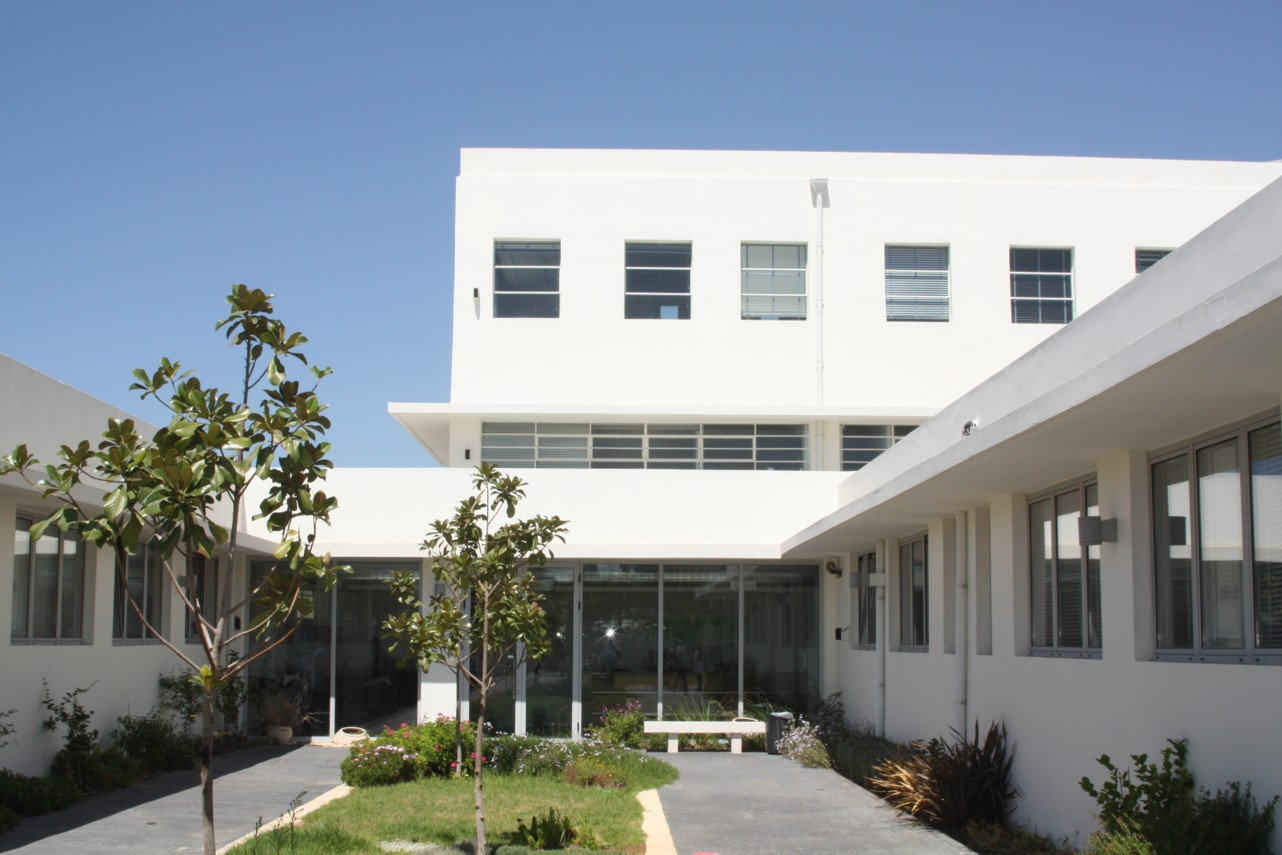 Government Printer House courtyard, Jerusalem